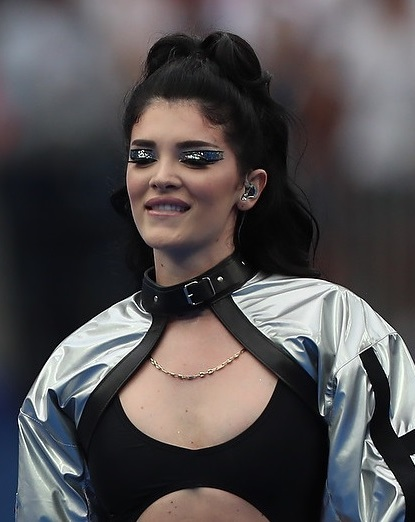 Era Istrefi